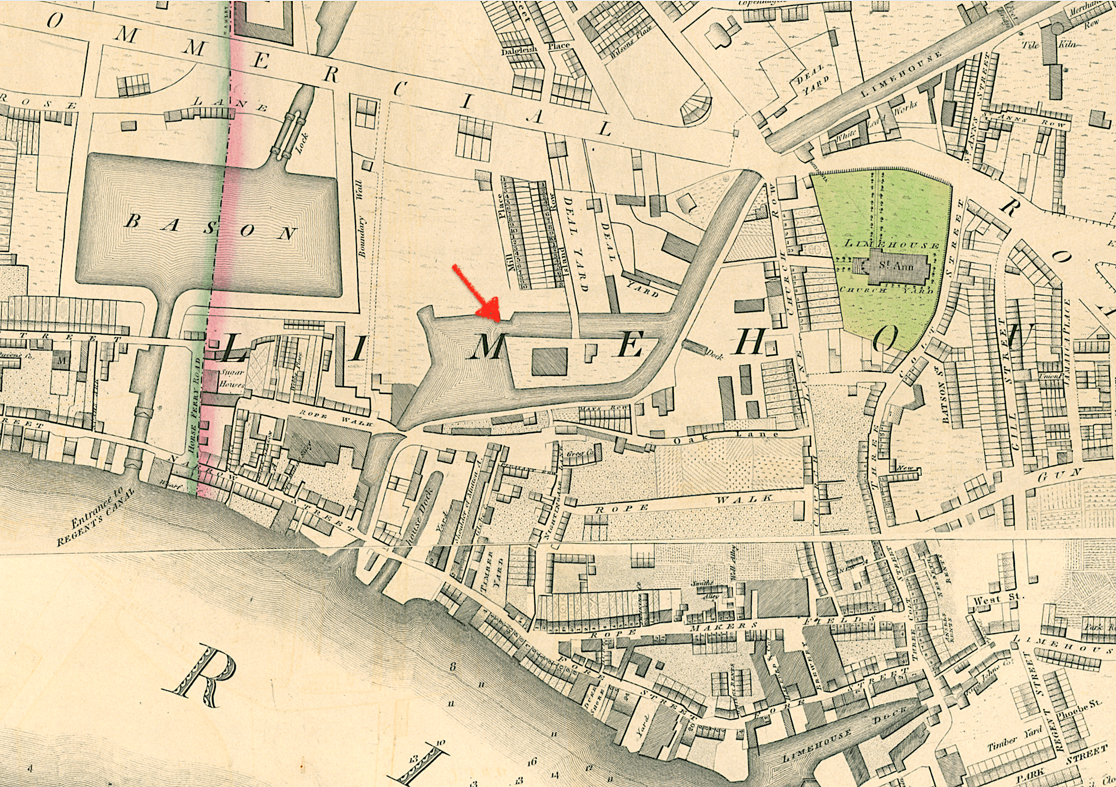 Horwood/Faden map of 1819 showing Limehouse in the vicinity of the Limehouse Cut. The newly constructed Limehouse Basin is to the west.